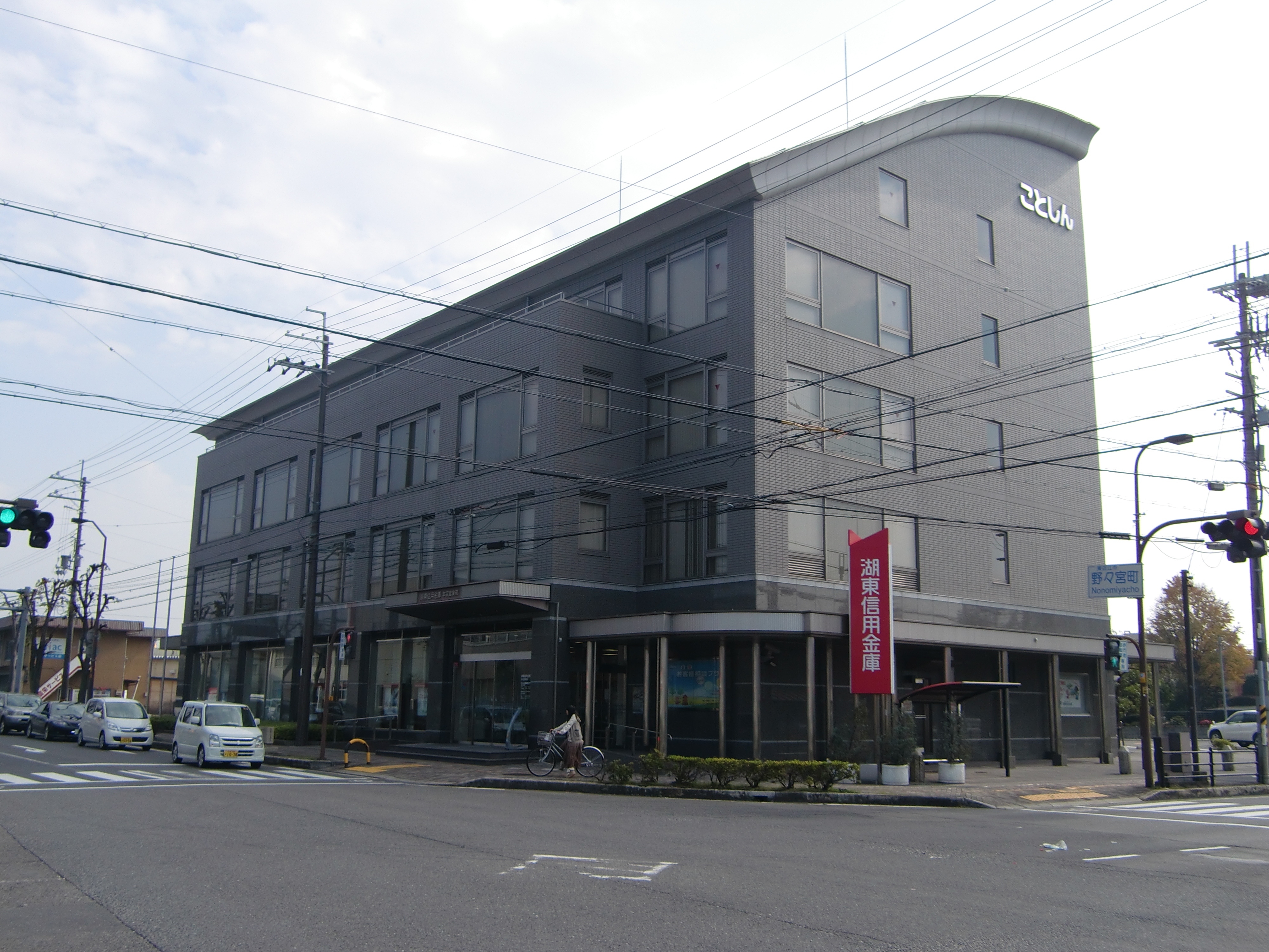 Koto Shinkin Bank